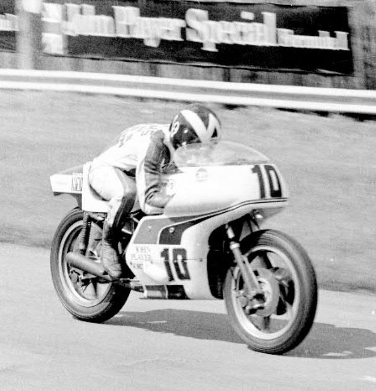 Peter Williams driving the John Player Norton 750 with tubolar space frame (1973-1974)